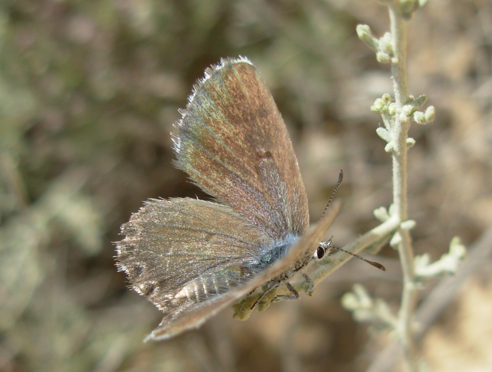 כחליל נבטי(Pseudophilotes abencerragus) במסגרת סיור האגודה בנחל ניצנה, אפריל 2013